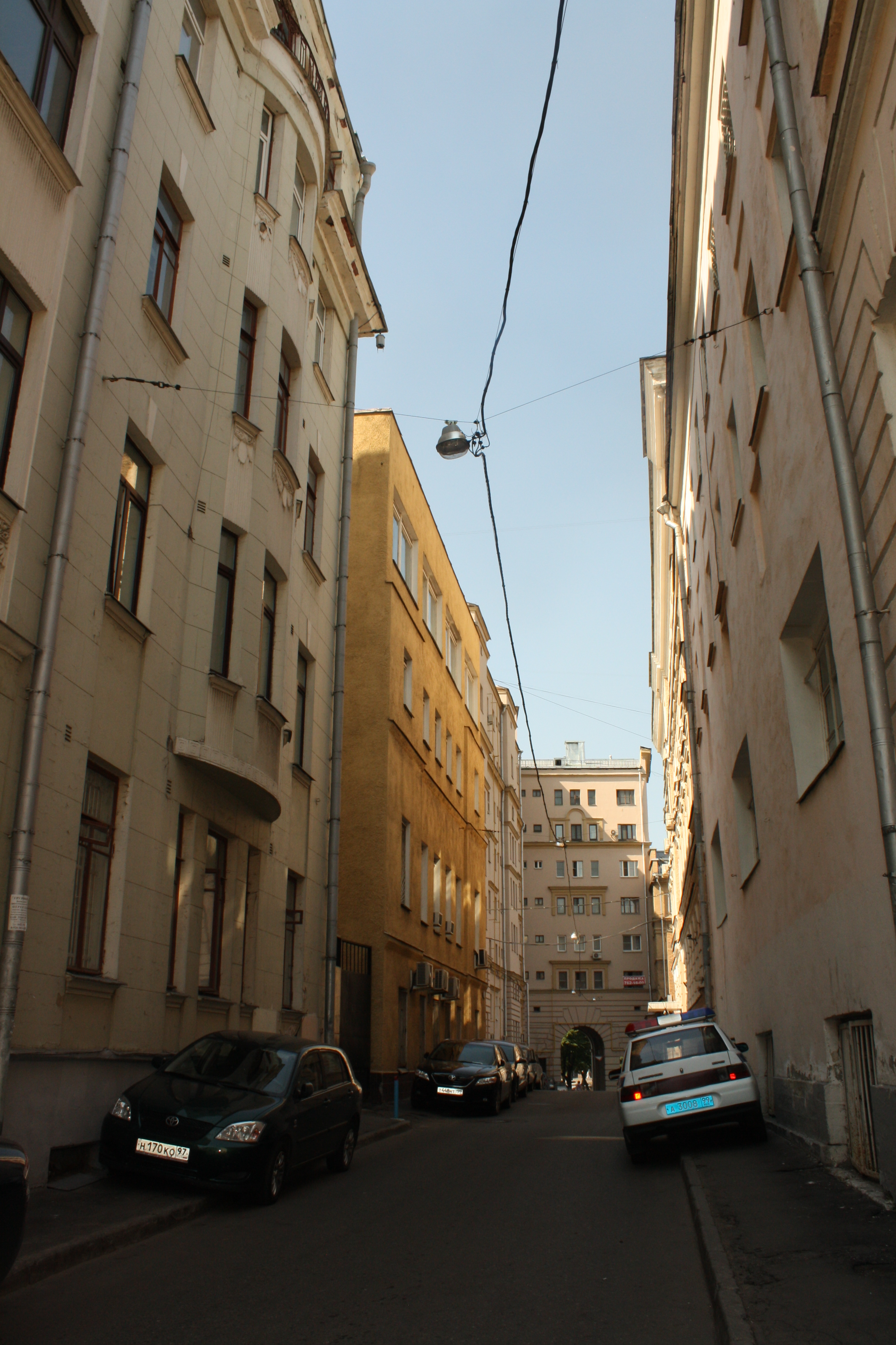 Maly Spasoglinishchevsky Lane, Moscow